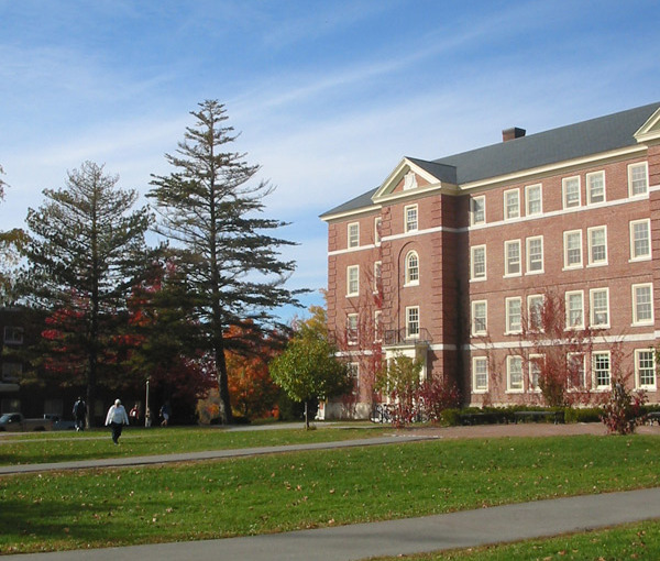 The Oak Hall Dormitory. Photo taken by Jalnet2.